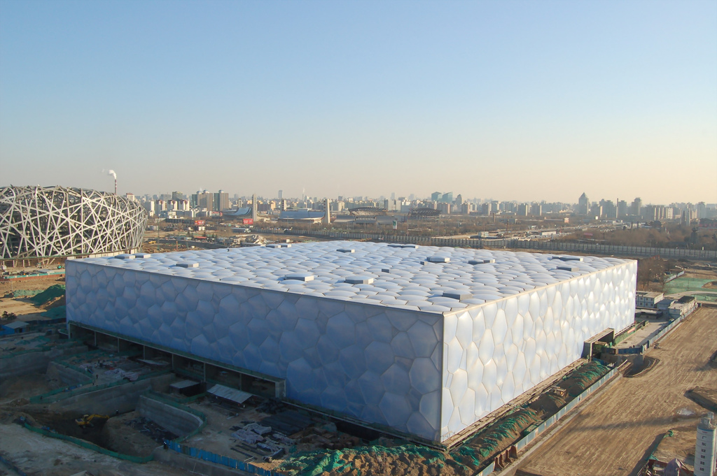 Beijing National Aquatics Centre